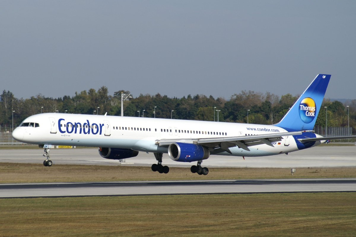 Condor Boeing 757-300 (D-ABOF) landing at Munich Airport (Franz Josef Strauss International Airport) .